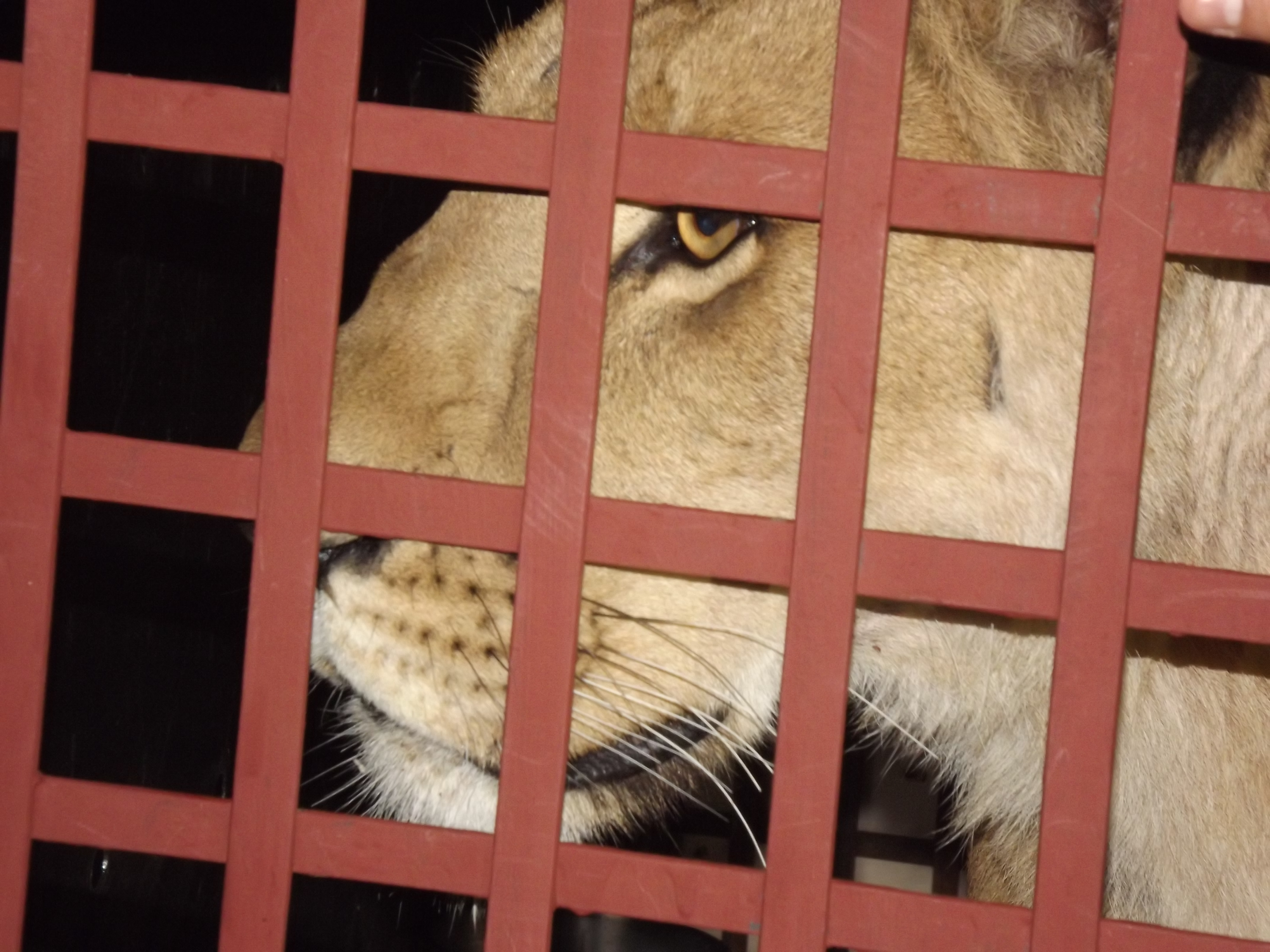 At Cairo Airport ready to transport to Holland